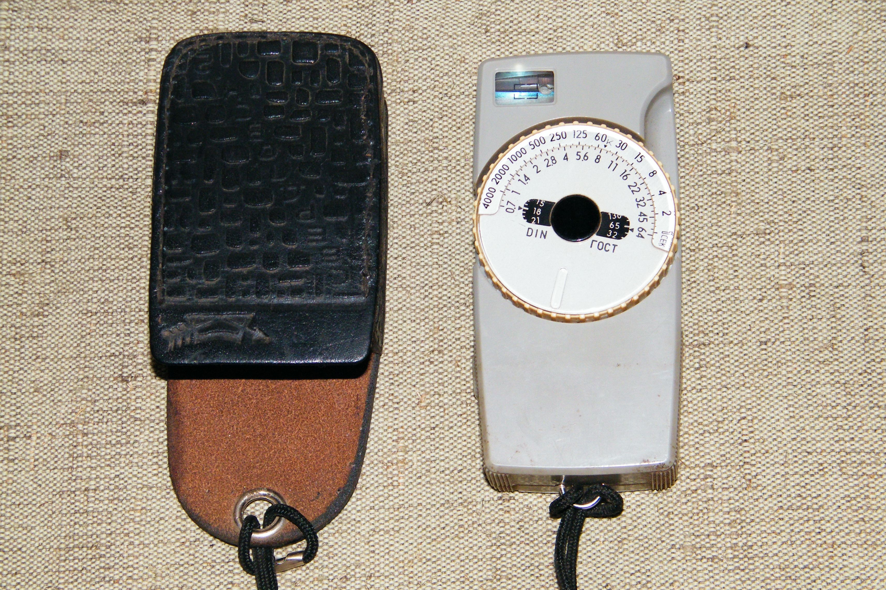 Свердловск-2 экспонометр